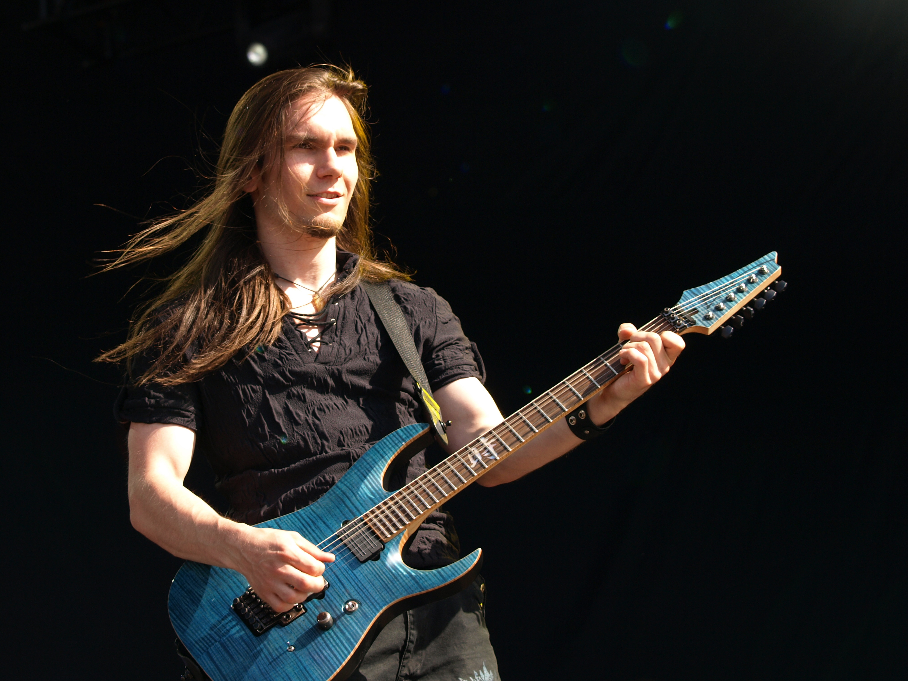 Finnish metal band Wintersun live at Tuska Open Air 2013